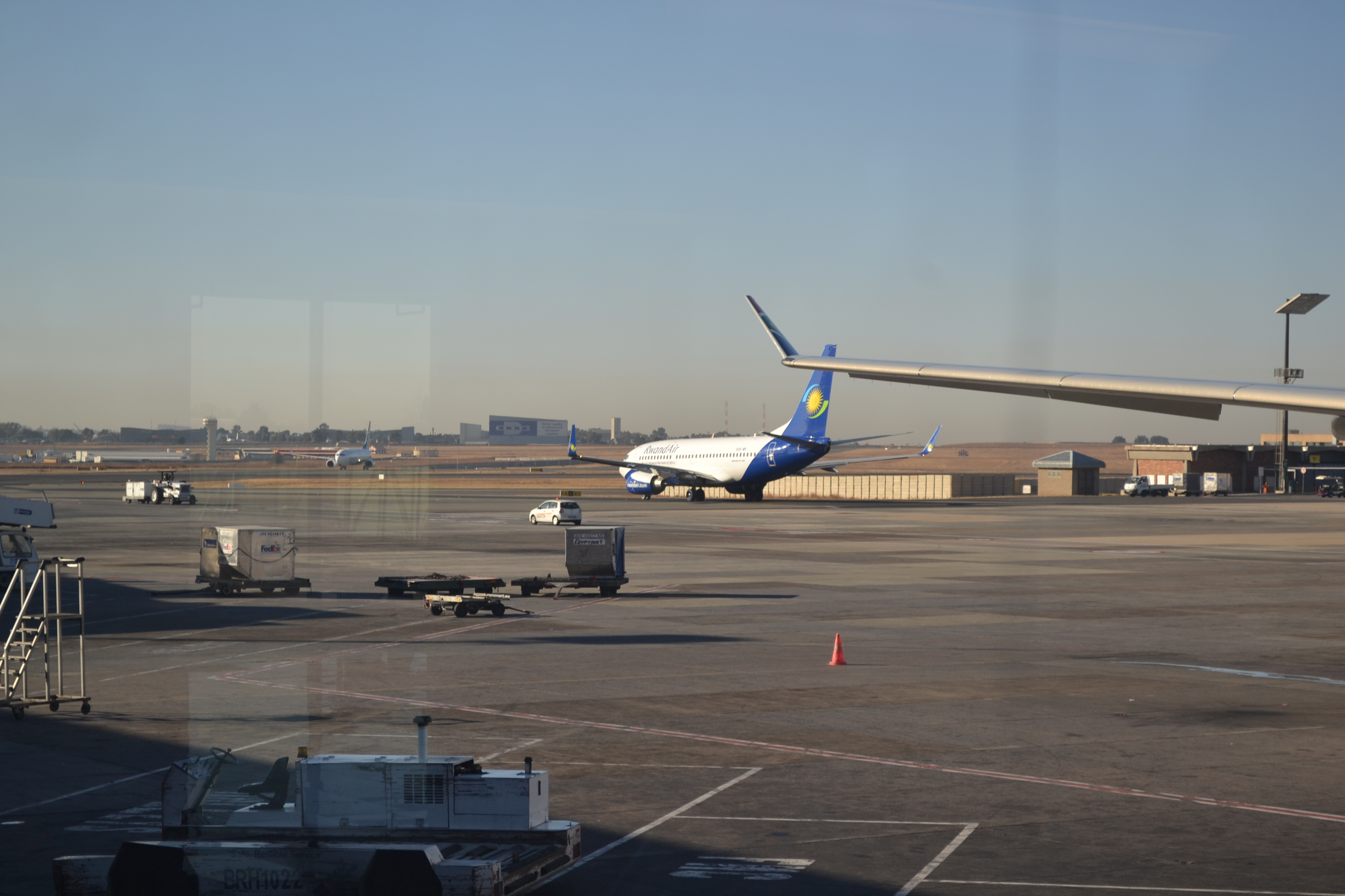 Rwandair B373 at OR Tambo International Airport in Johannesburg, South Africa